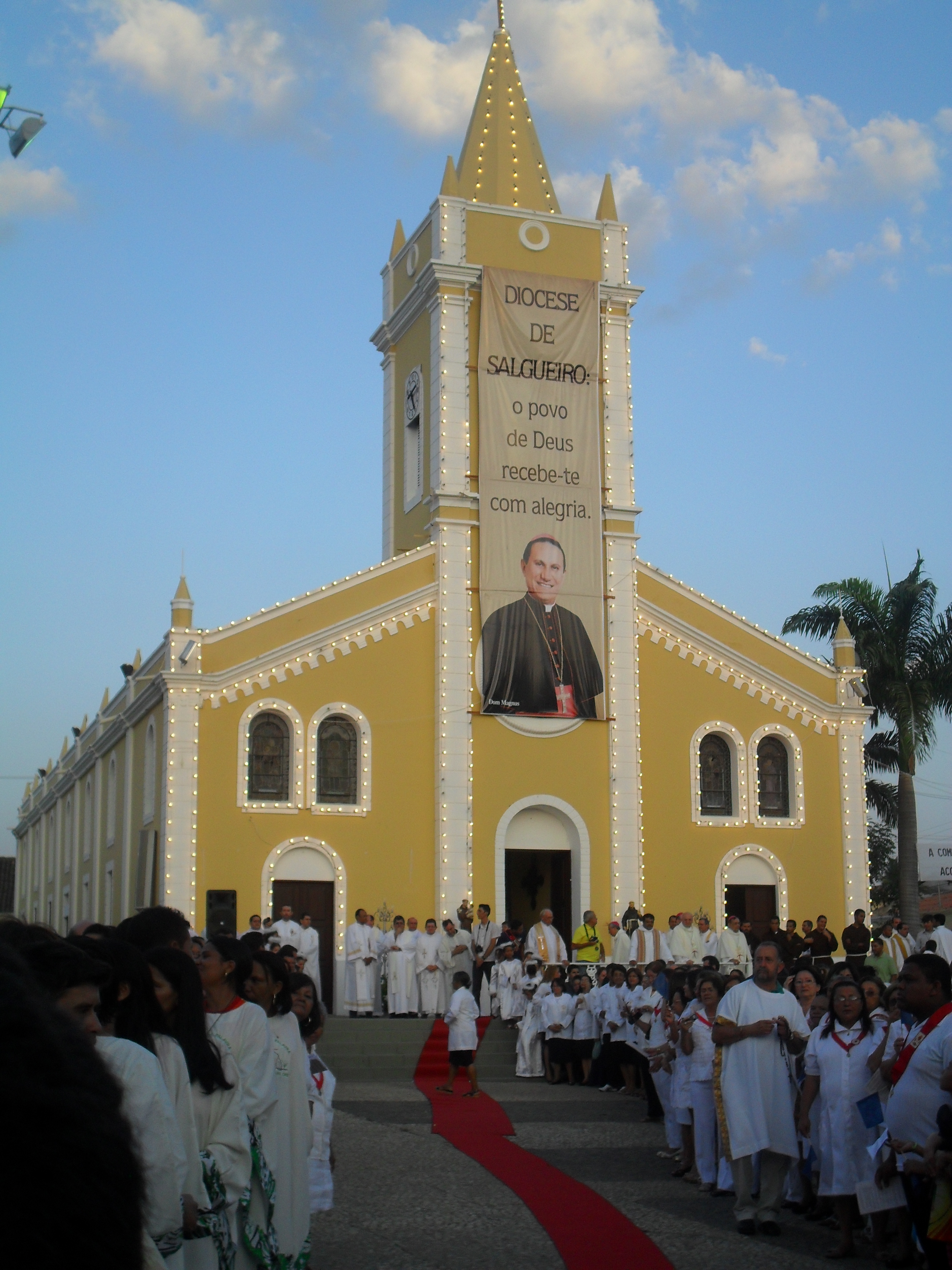 The inauguration of Don Magnus